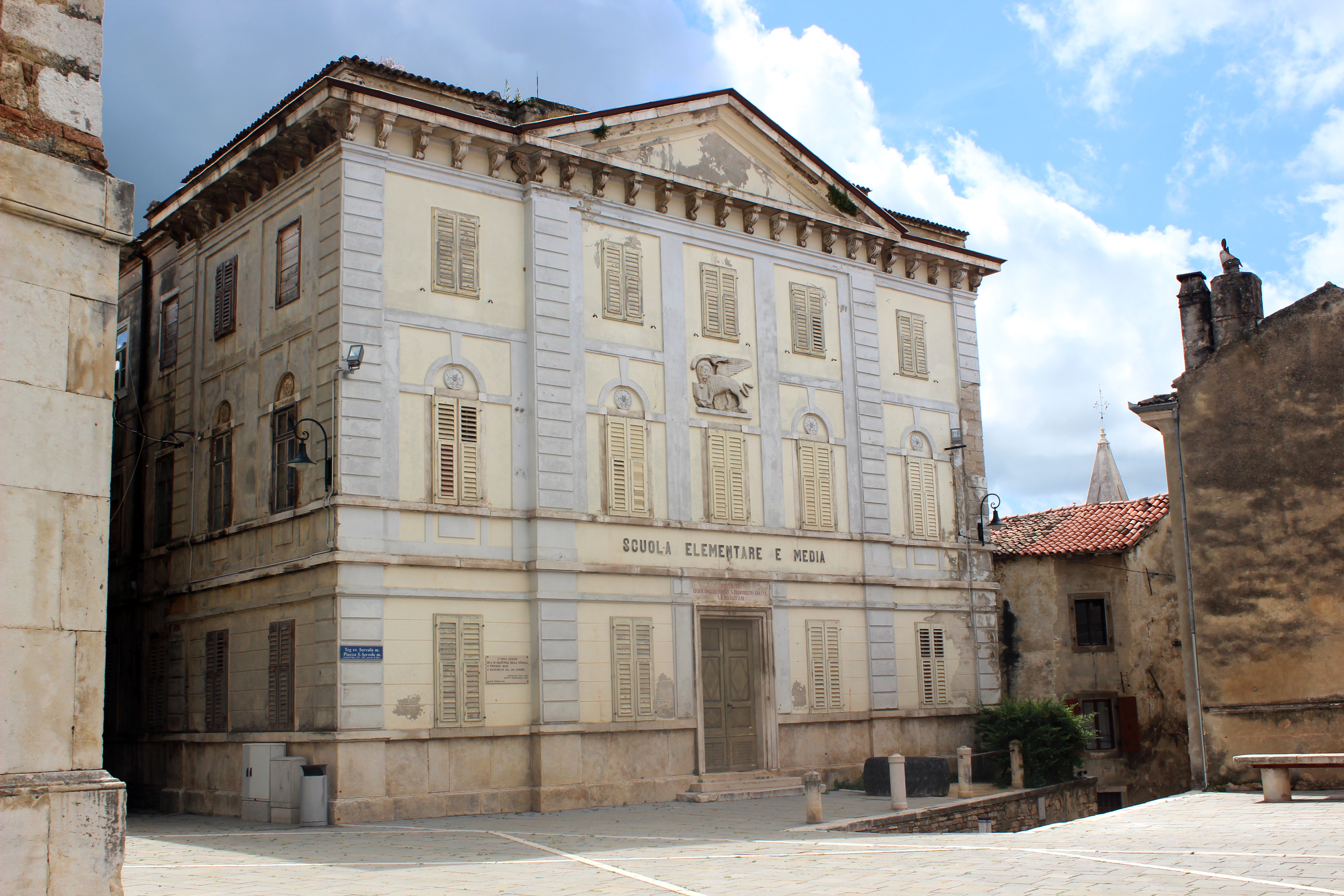 Neoclassical Palace(former council house, Today's school house), in Buje, Croatia